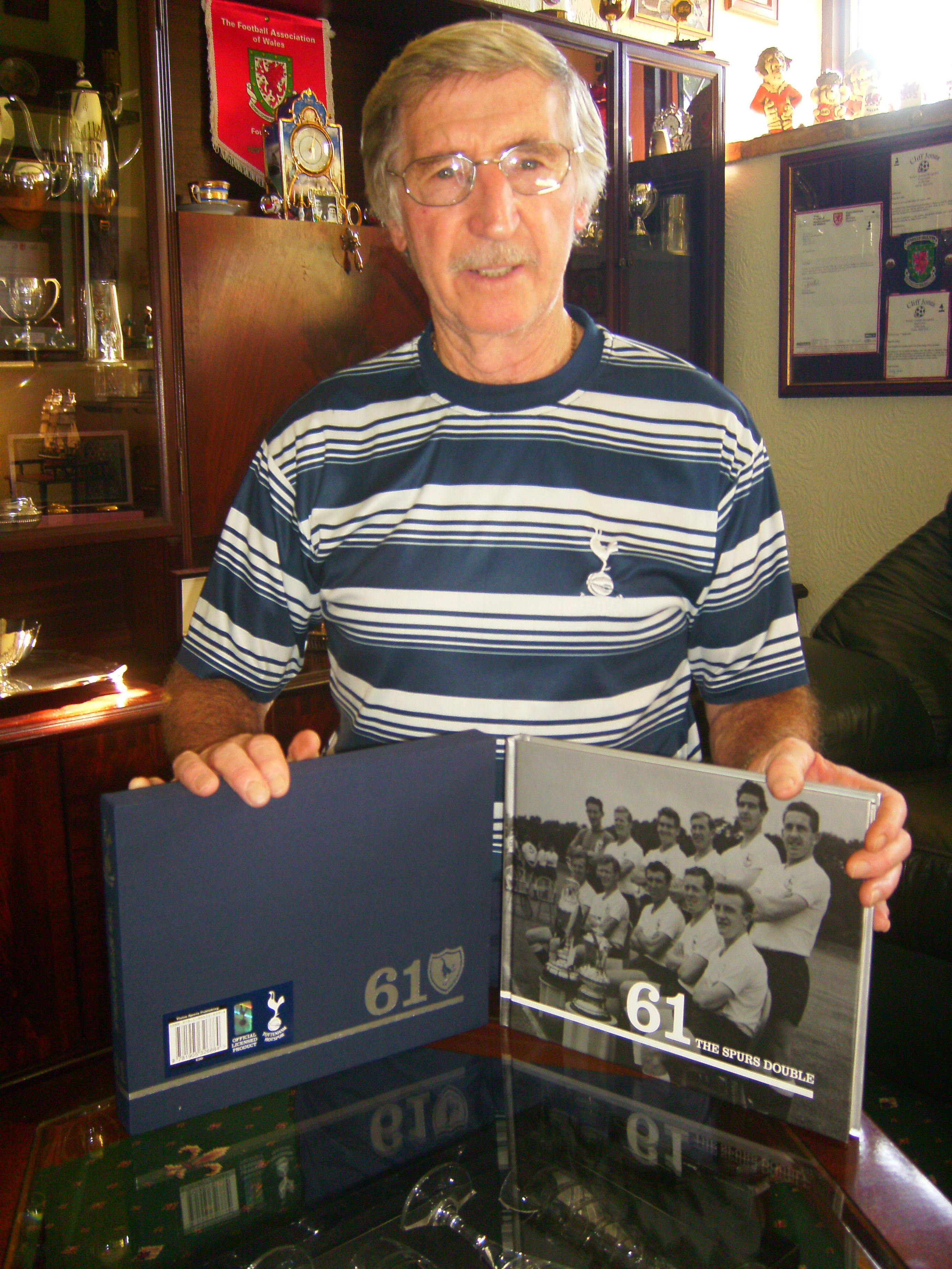 Spurs legend Cliff Jones